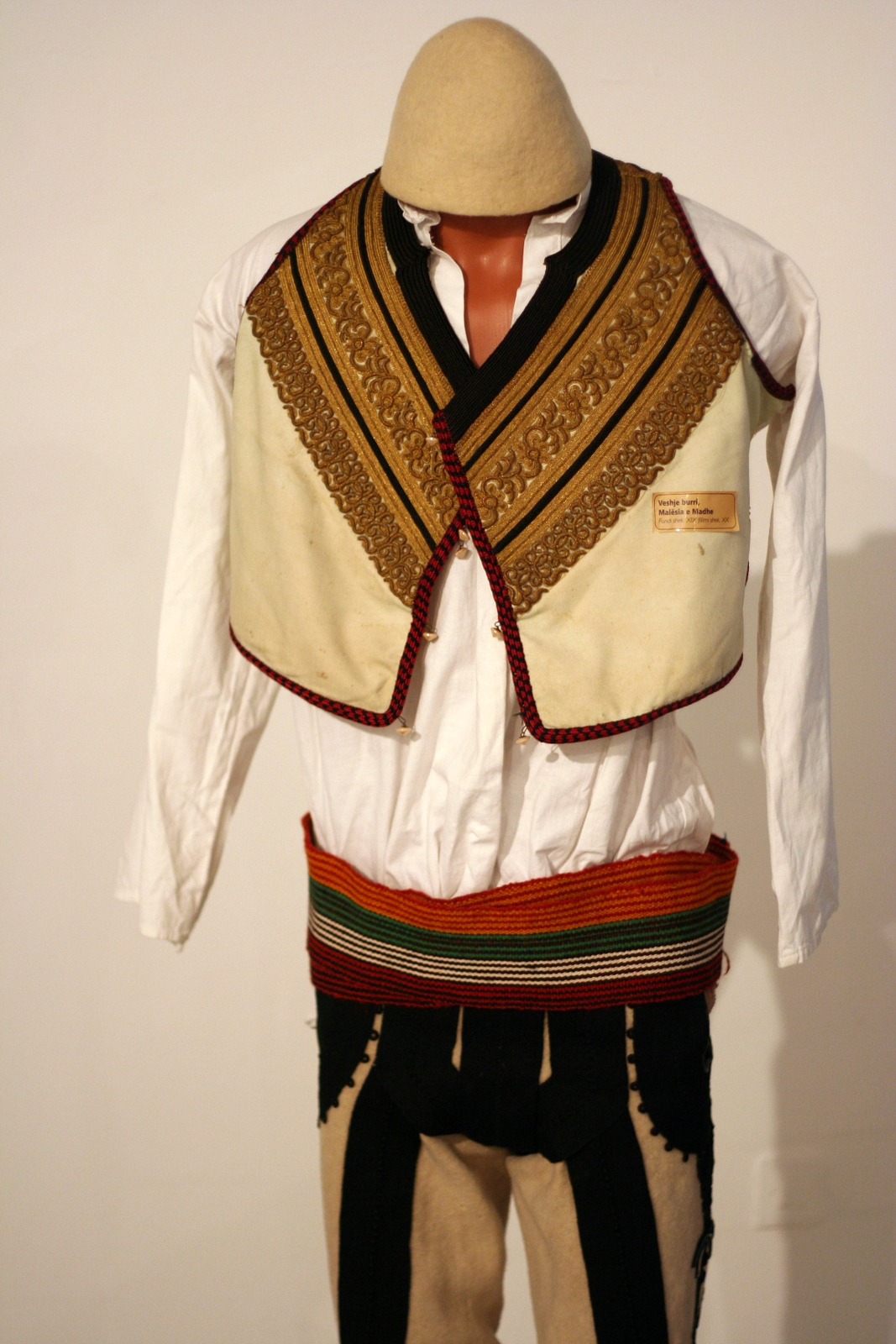 Veshje Tradicionale - Malësi e Madhe